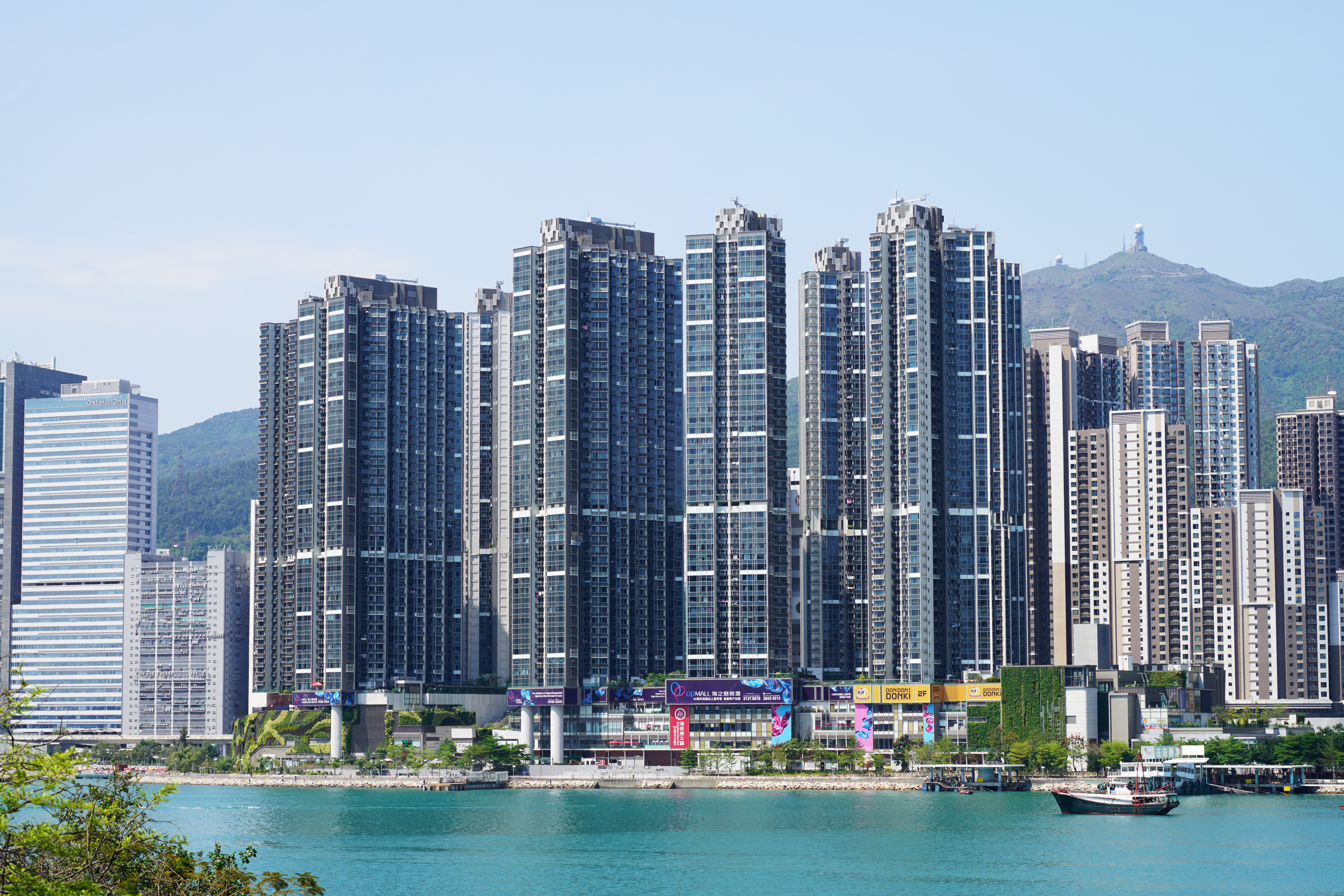 Ocean Pride, Hong Kong.